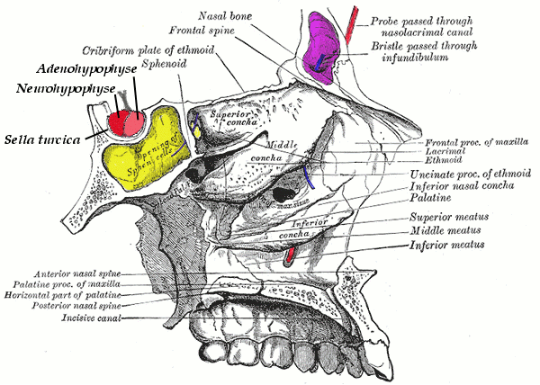 Roof, floor, and lateral wall of left nasal cavity.